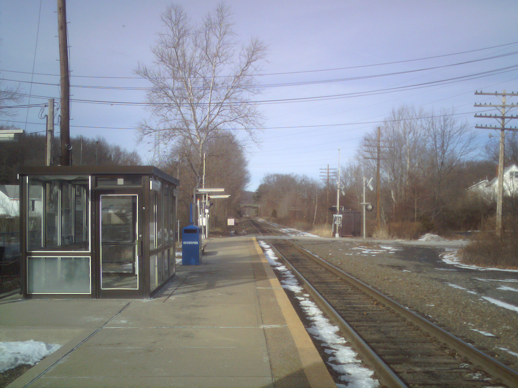 Northbound view of the Sloatsburg Metro-North train station in Sloatsburg, New York